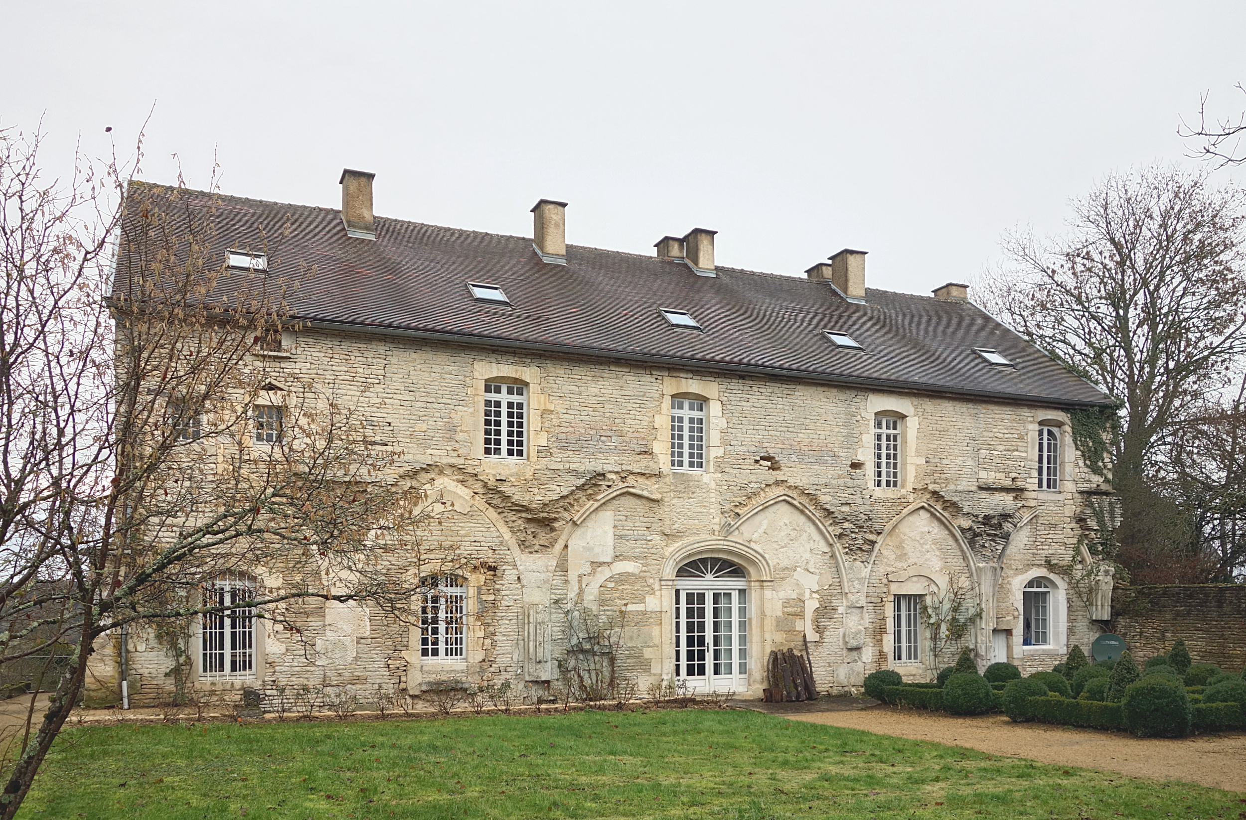 Molesme Abbey in France. .